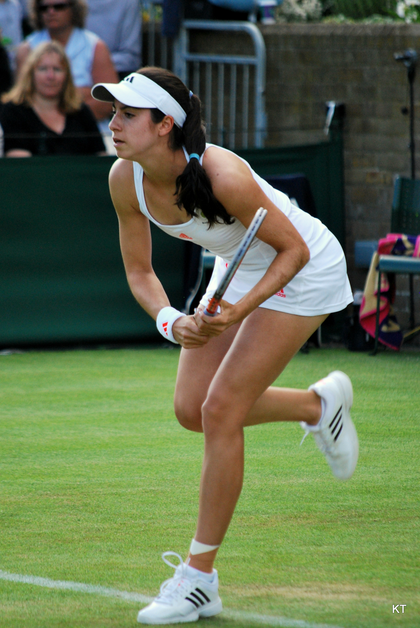 Christina McHale at the Wimbledon Championships 2012